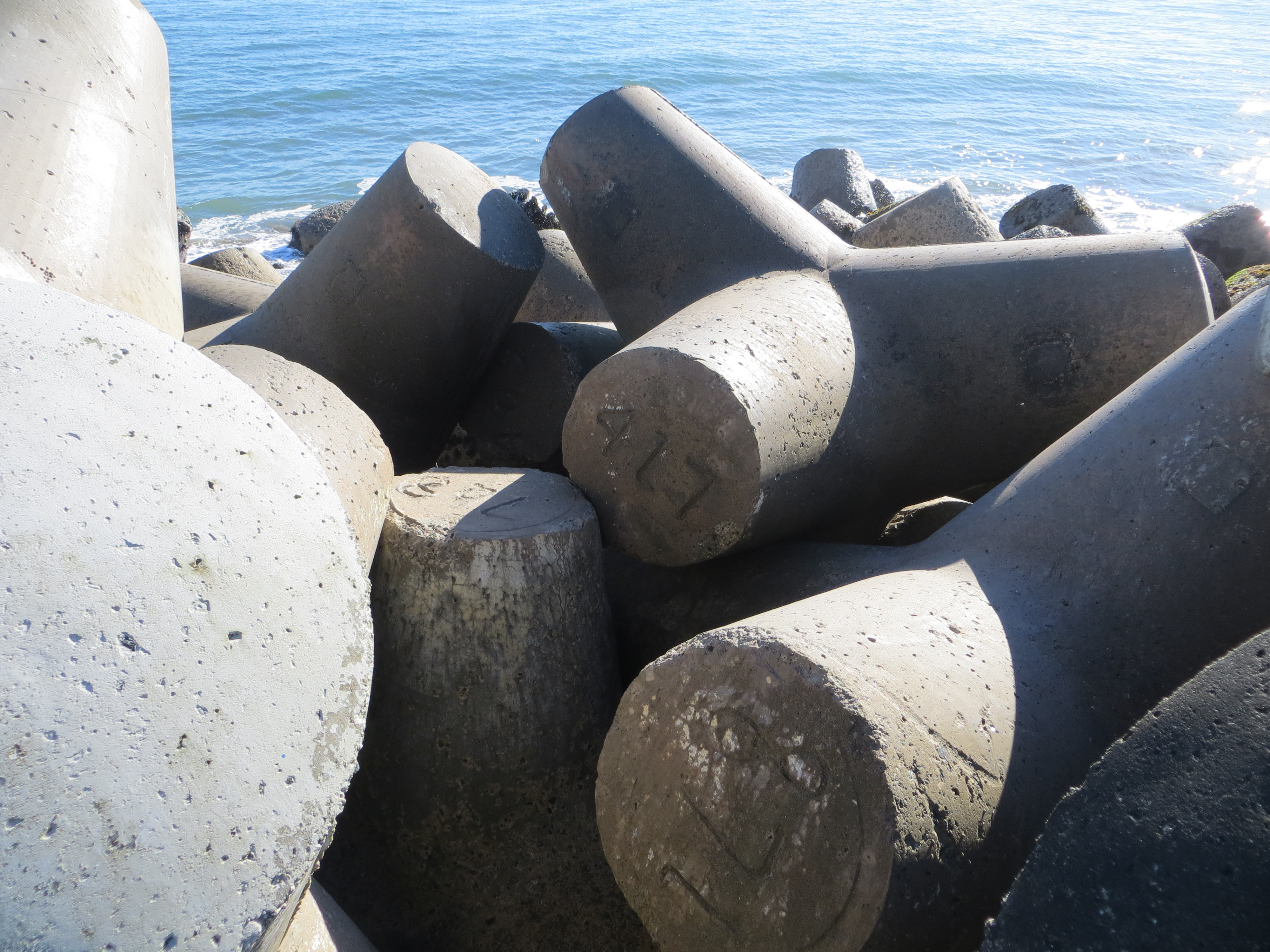 Tetrapods protect the breakwater leading to the Walton Lighthouse at the entrance to the Santa Cruz Harbor in California, USA.